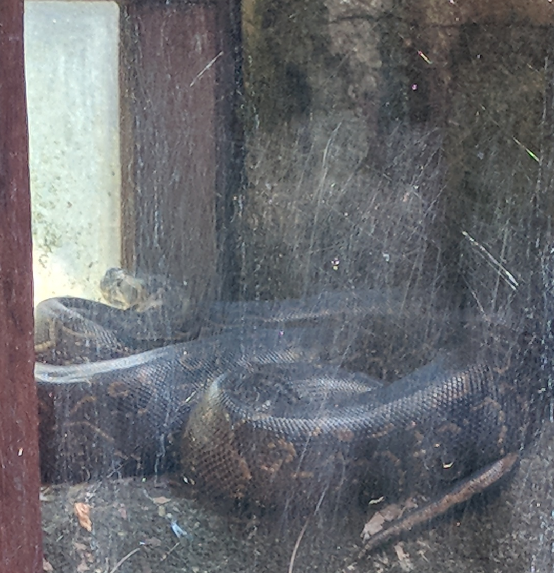 Picture of a snake in the Limbe Wildlife centre, Limbe, South West Region of Cameroon